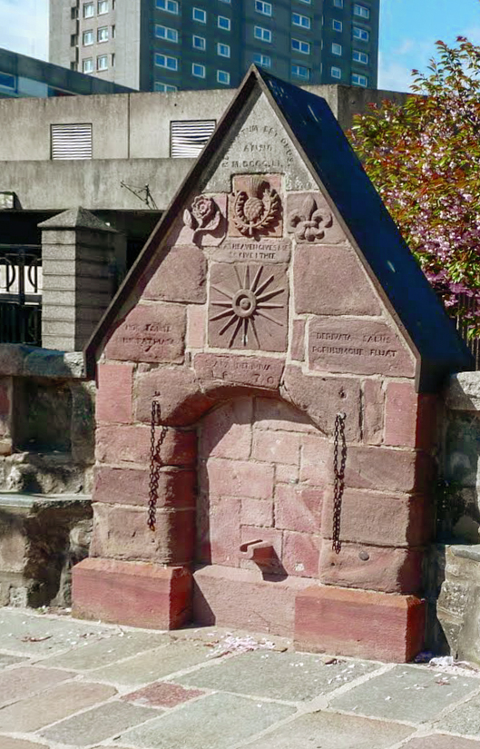 Well Spa